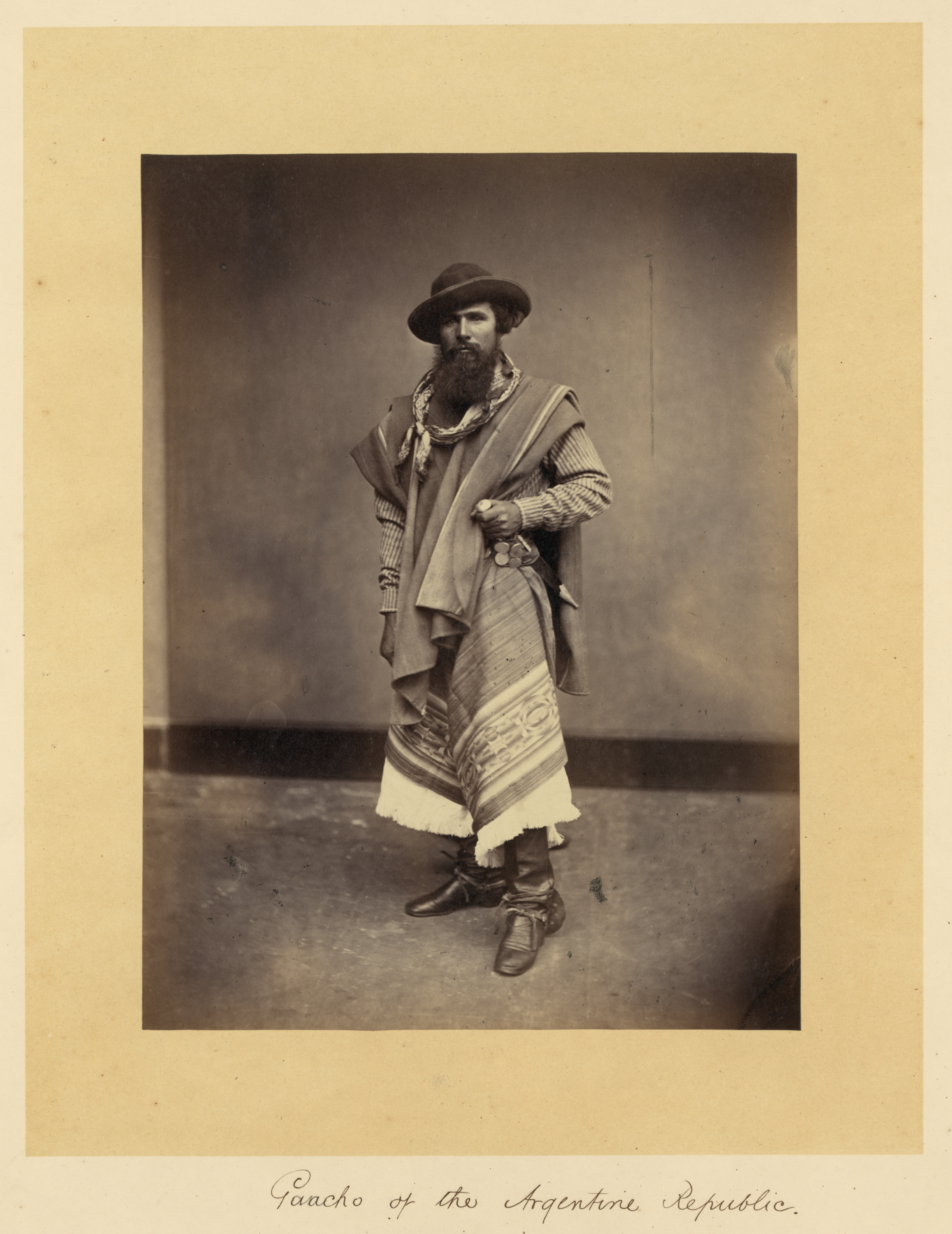 "Gaucho of the Argentine Republic", original version with frames.